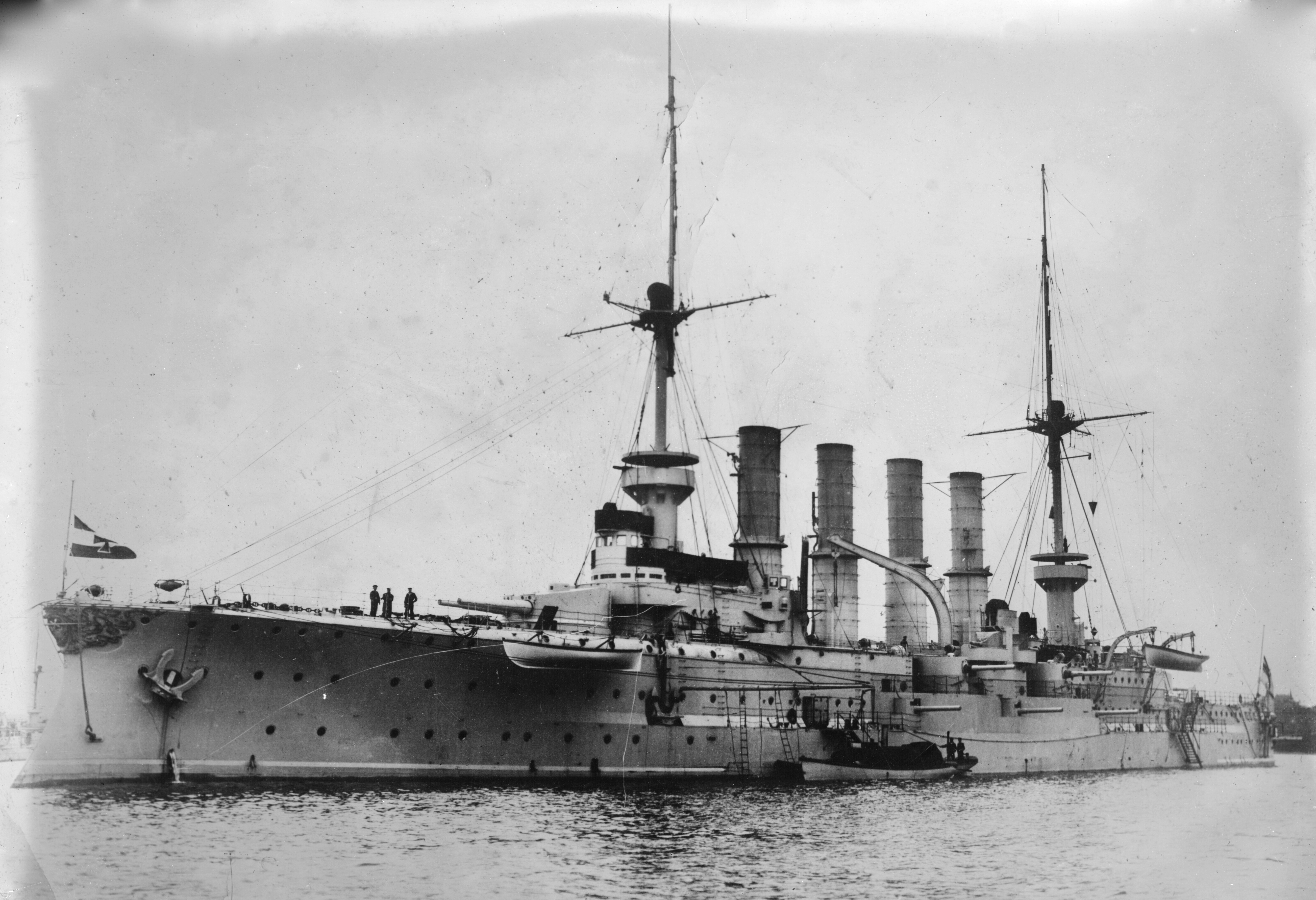 German armored cruiser SMS Roon